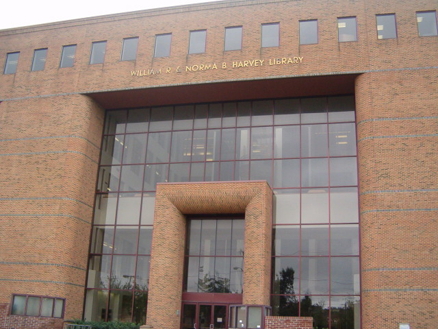 Hampton University Library